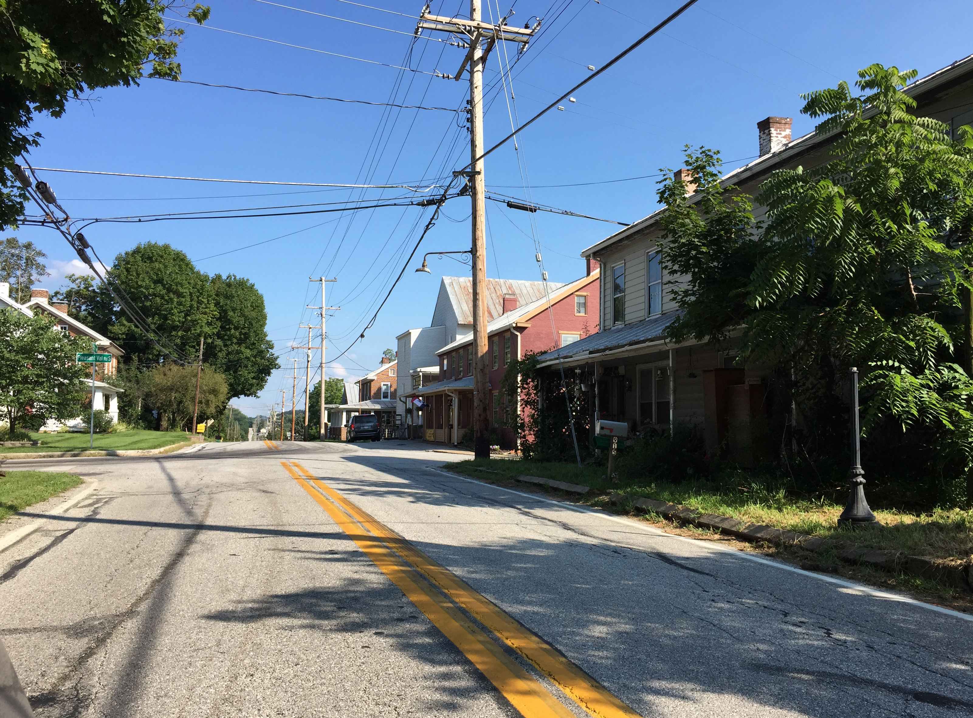 View east along Maryland State Route 832 (Old Taneytown Road) at Frizzellburg Road and Pleasant Valley Road in Frizzellburg, Carroll County, Maryland